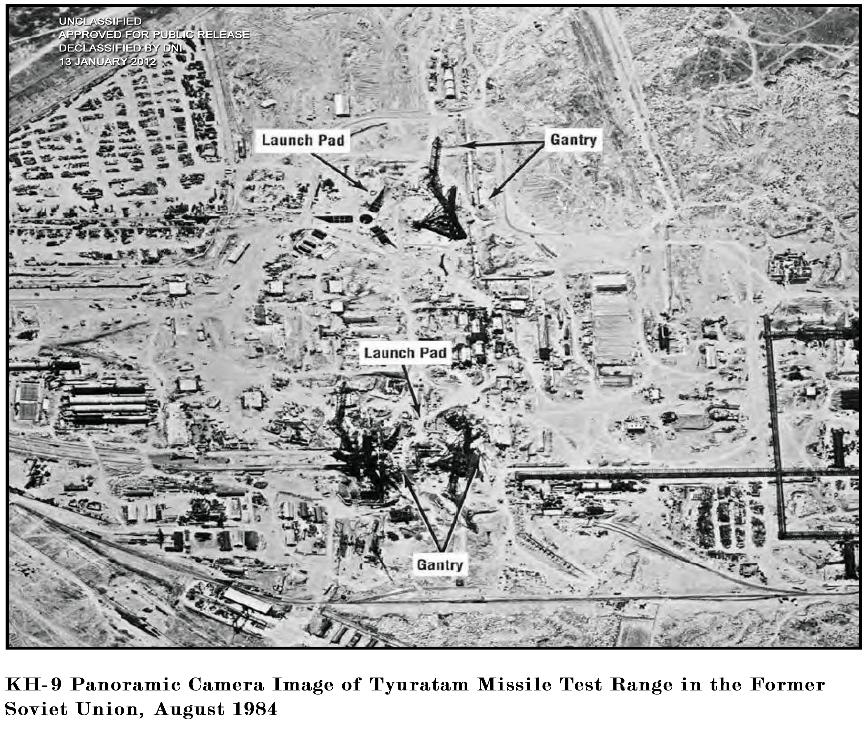 Tyuratam missile test range. Former USSR. Taken by KH-9 satellite. August 1984.